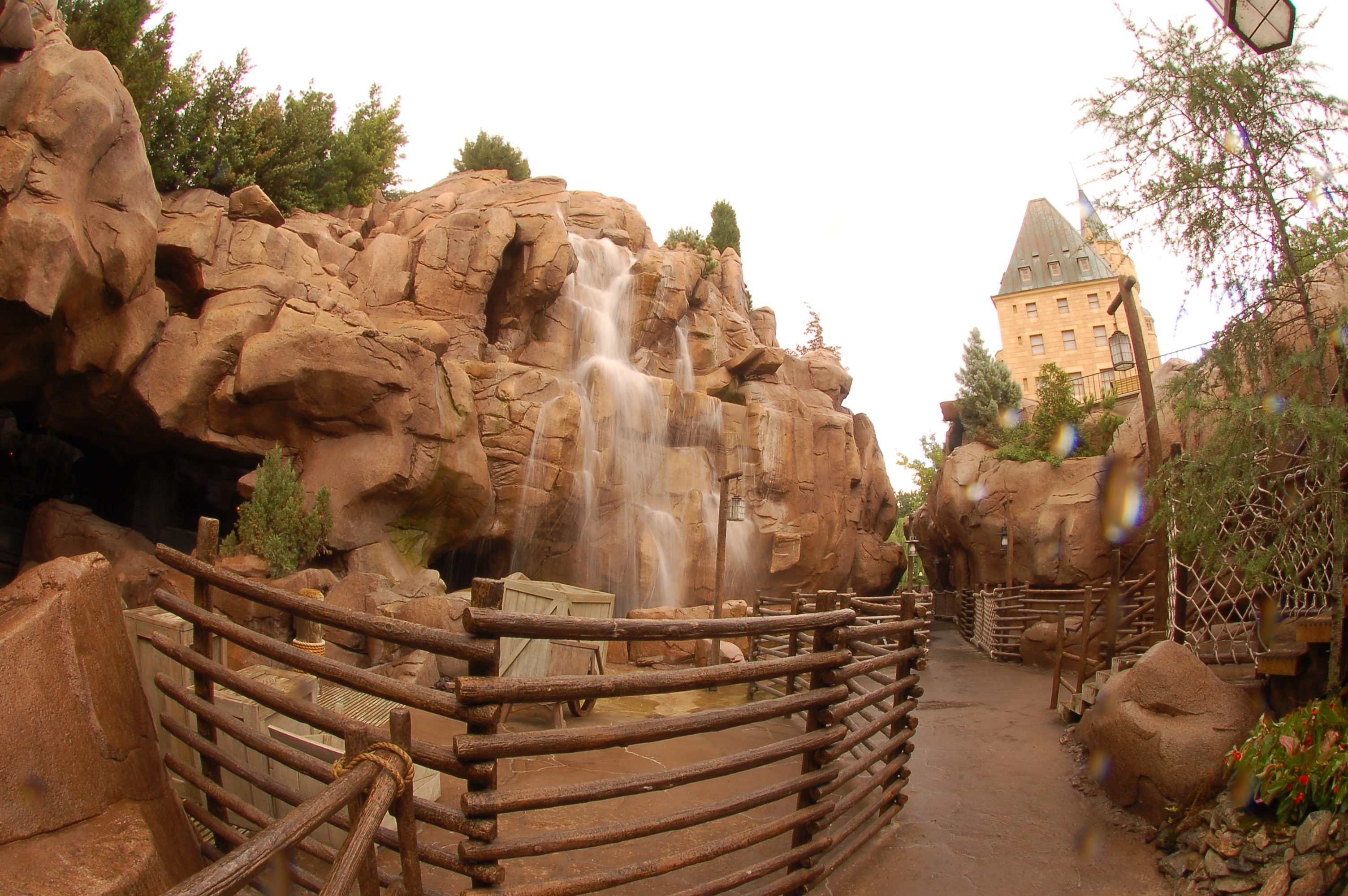 Waterfall and fake Canadian Shield at Canada Pavillion